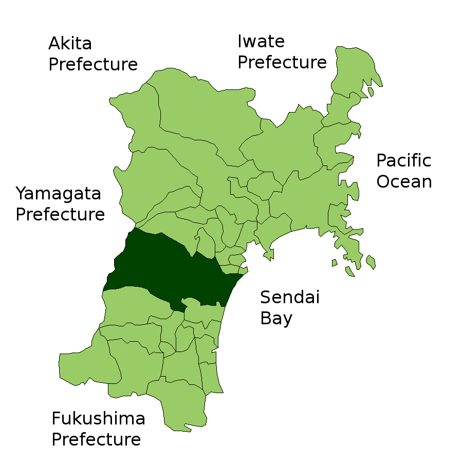 Location Map of Sendai in Miyagi Prefecture, Japan